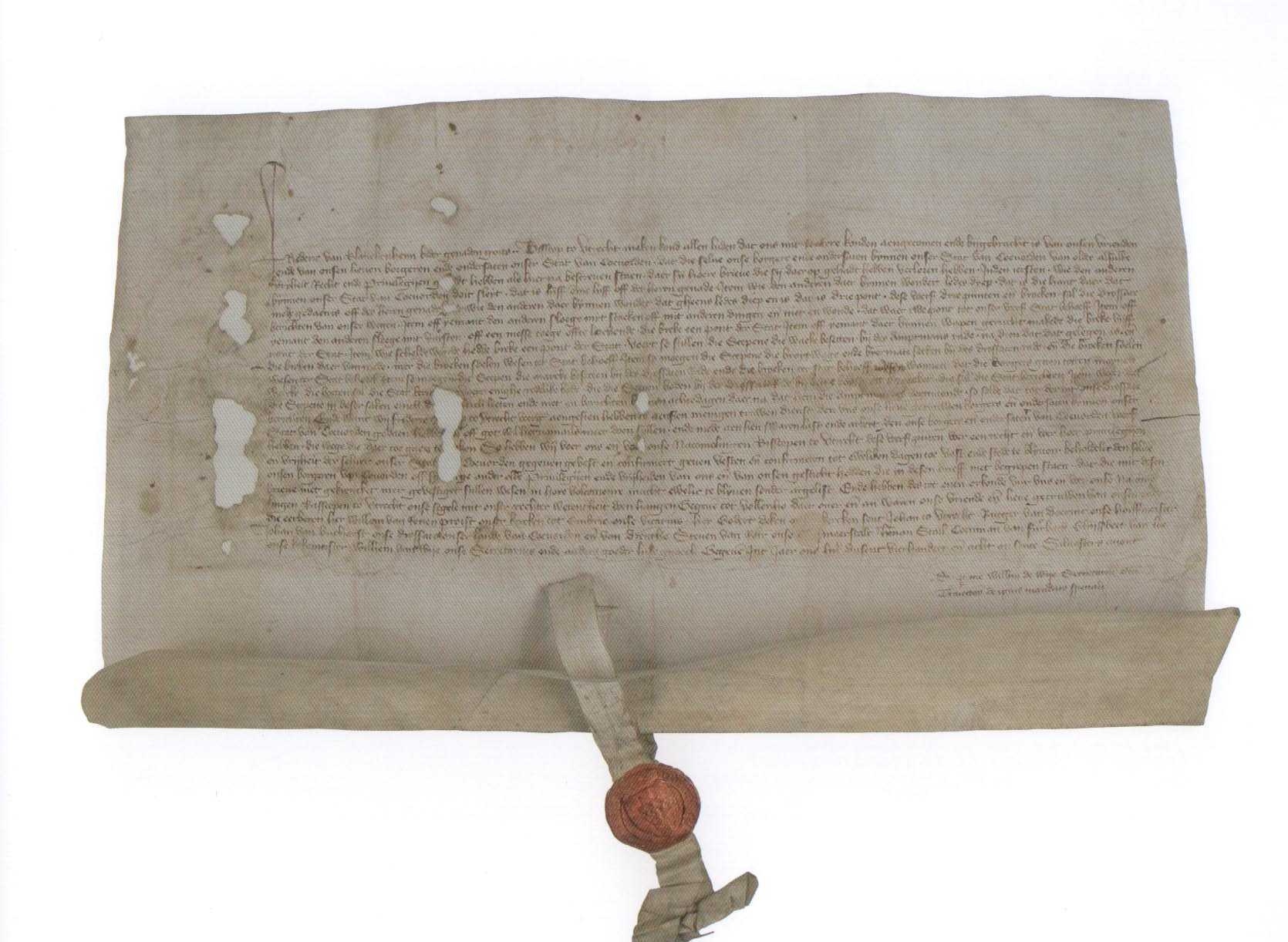 This document is a scan of the letter that granted city-rights to the city of Coevorden, the Netherlands. It was written in 1407.